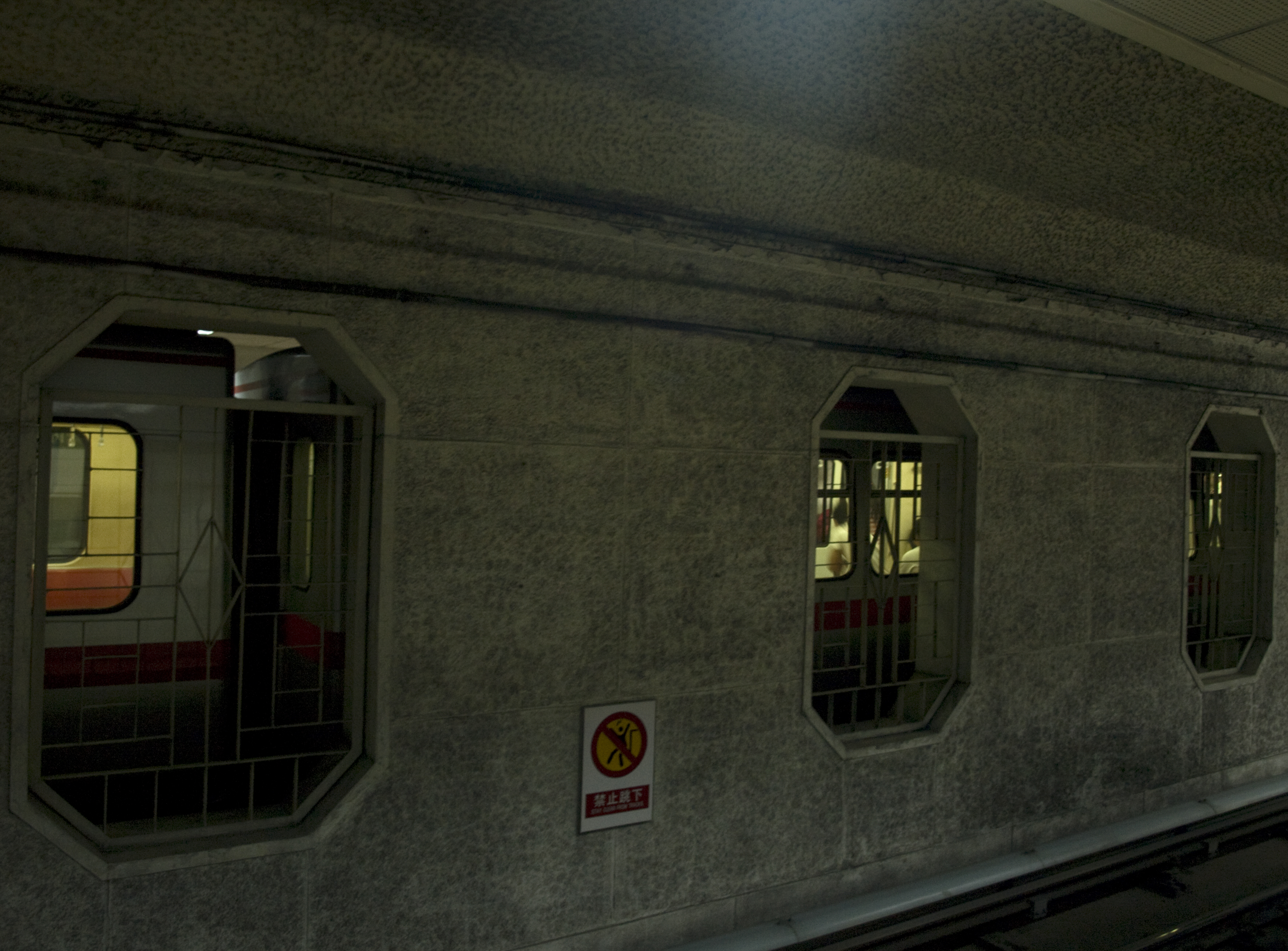 Pinggouyuan station, Beijing subway. A view of one of the platforms from the opposite one